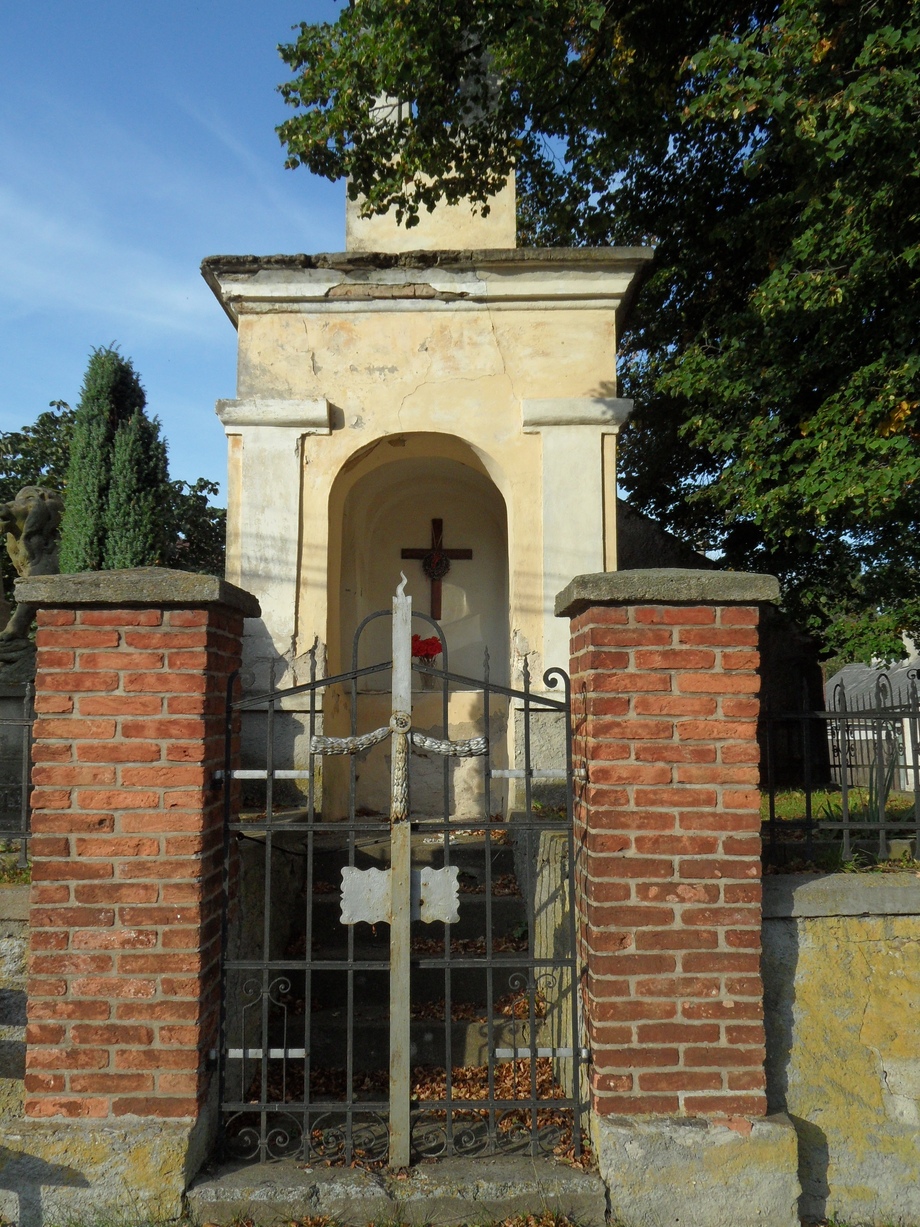 Sedlov (Ratboř) F. Chaple of the Exaltation of the Holy Cross, Kolín District, the Czech Republic.